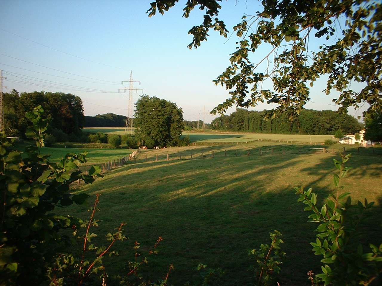 Town of Bünde, District of Herford, North Rhine-Westphalia, Germany.